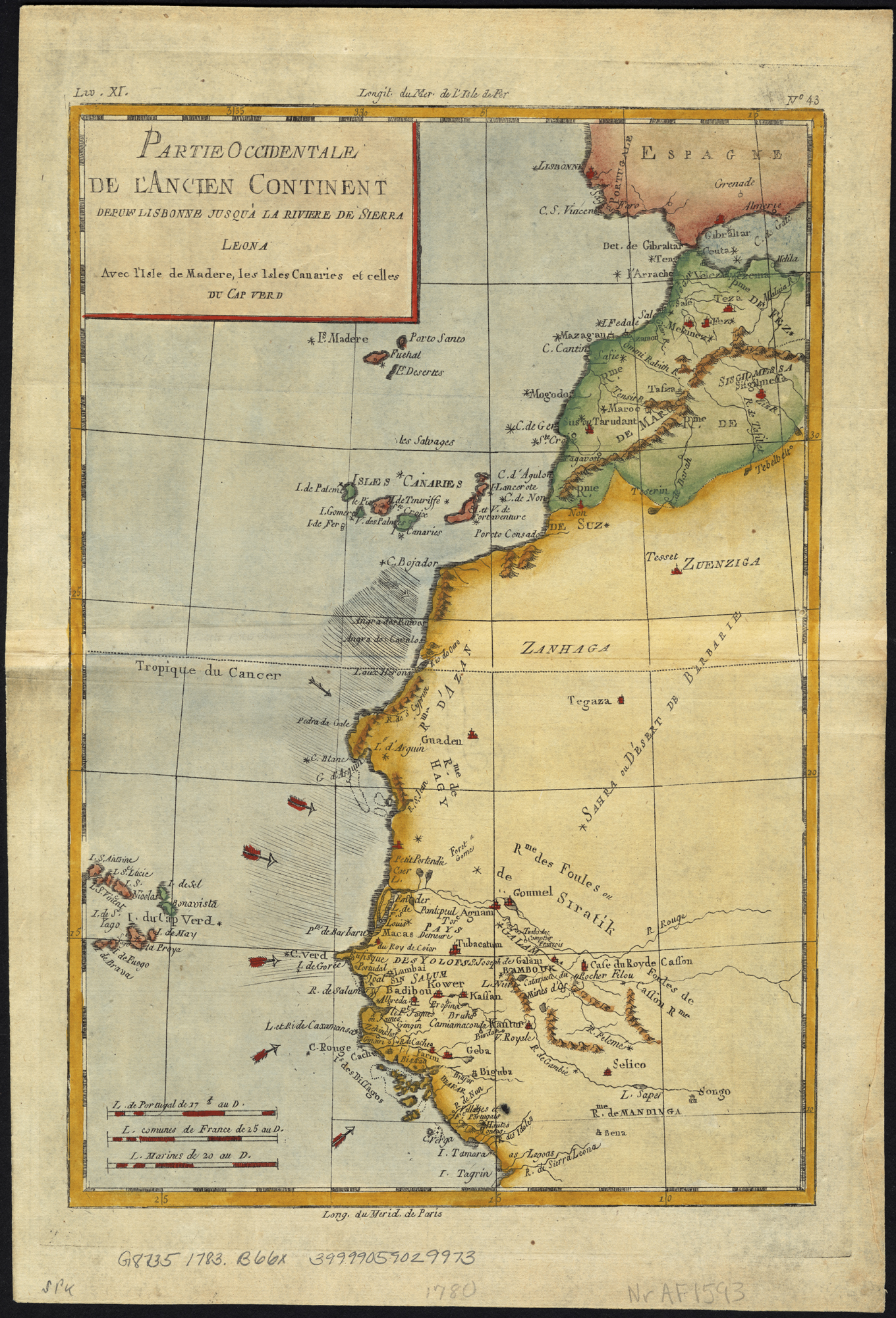 Zoom into this map at . Author: Bonne, Rigobert Publisher: Libraries Associés Date: 1783 Location: Africa, West Dimension: 31x21cm Scale: [ca. 1:11,500,000] Call Number: G8735 1783 .B66x